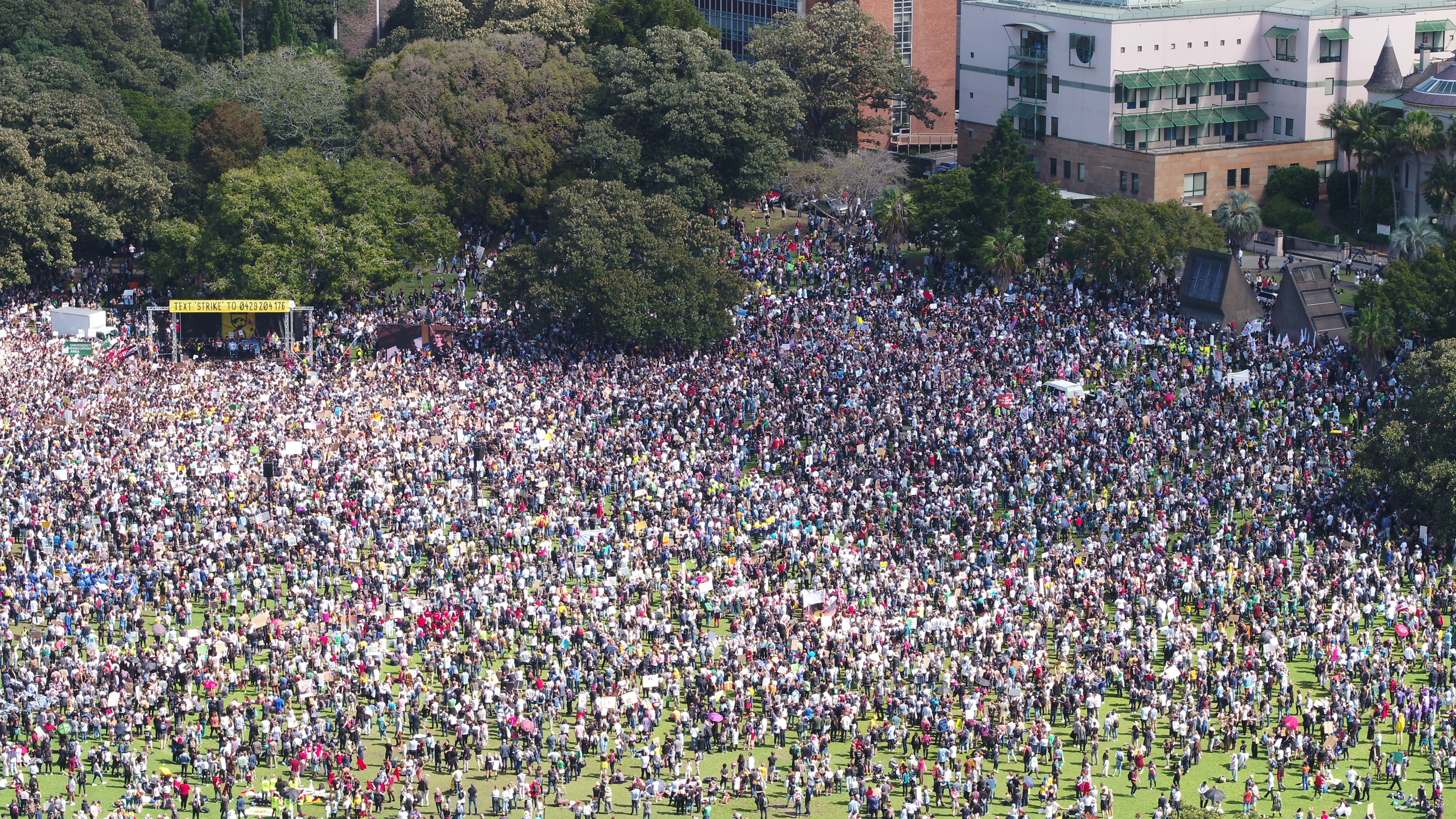 Photo credit: Crisp Aerial Imagery